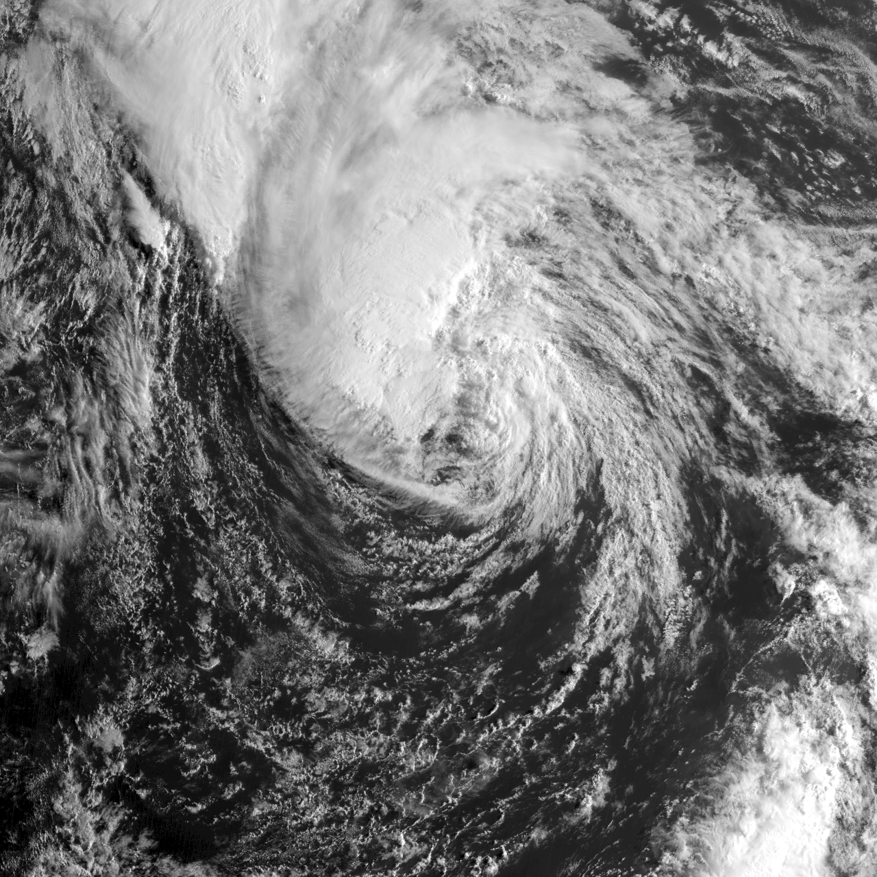 Geostationary imagery of Tropical Storm Nalgae (13W)